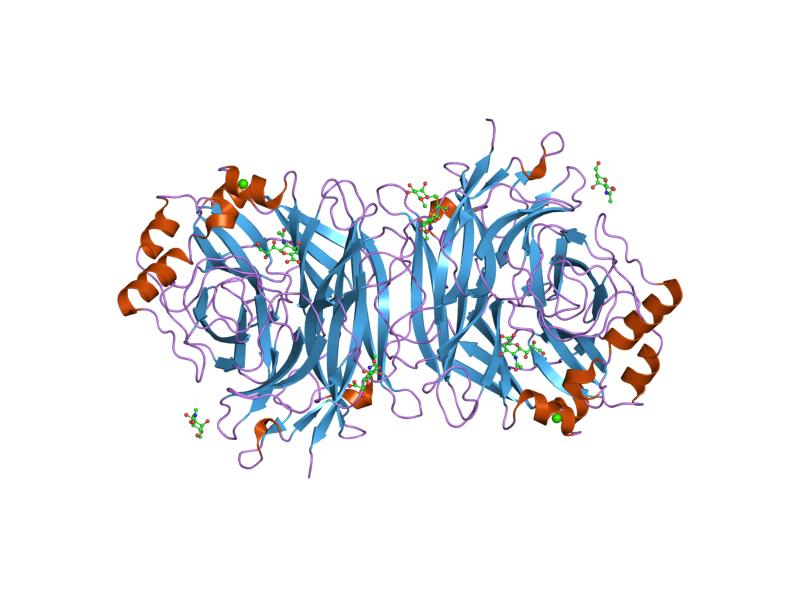 Cartoon representation of the molecular structure of protein registered with 1usr code.